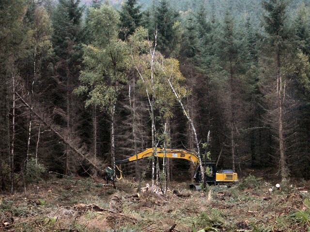 Timber! This JCB machine (a tracked excavator equipped with a harvester head) only takes a minute or two to rip a tree from the ground, trim off all the side branches and cut the trunk into lengths. The forestry plantation is on the lower slopes of Greenhow Bank, west of Ingleby Moor.